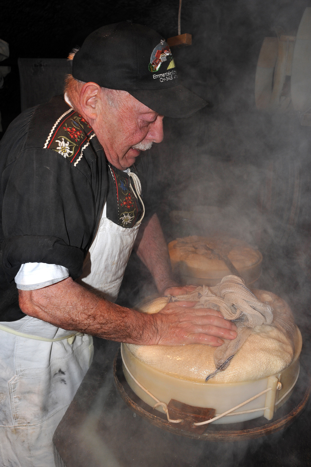 Emmental show dairy, in the "Küherstock"; traditional cheese production; Affoltern, Berne, Switzerland.